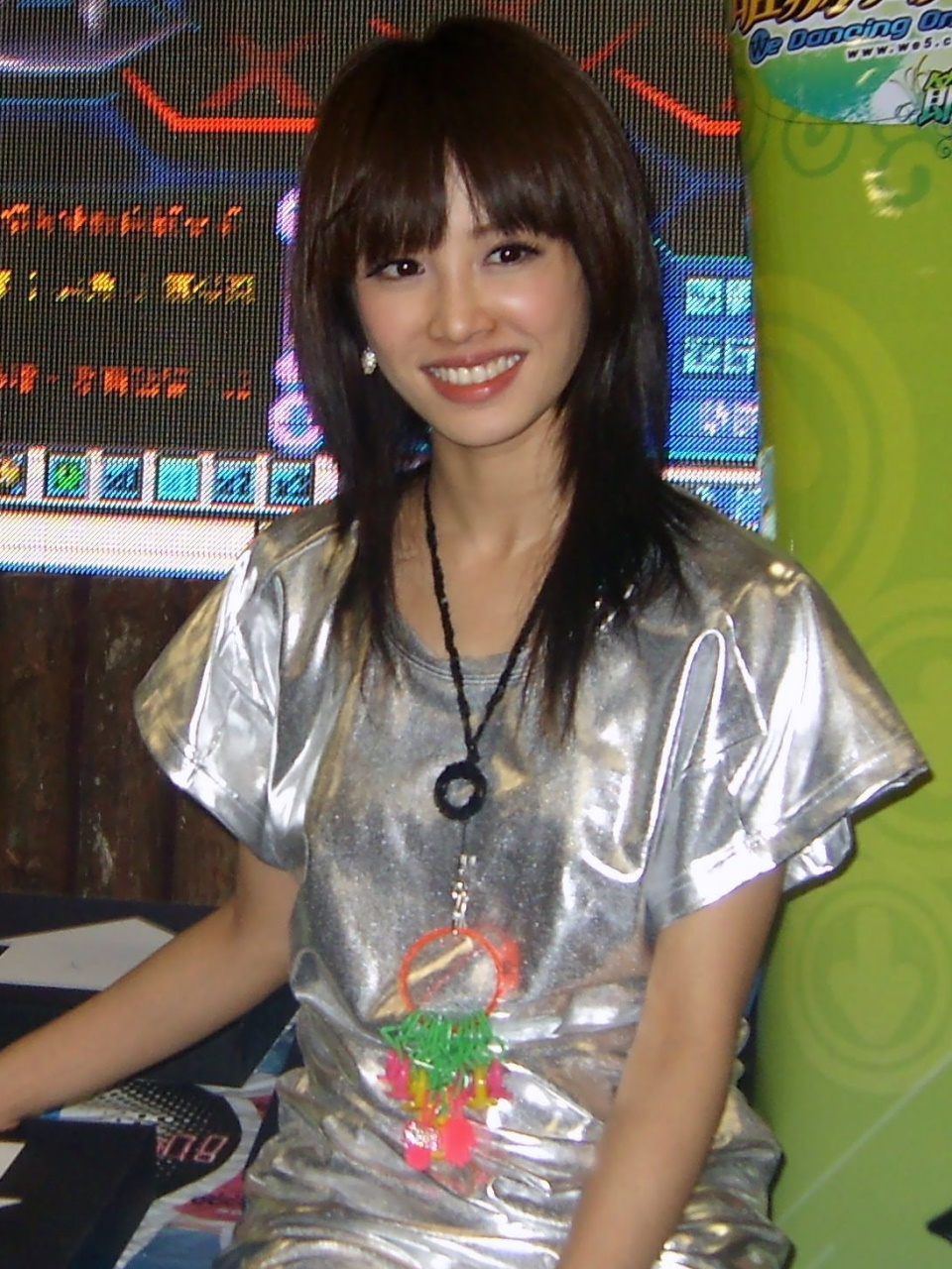 2008 Taipei Game Show: Jolin Tsai at IGS "We Dancing Online" Special Activity.